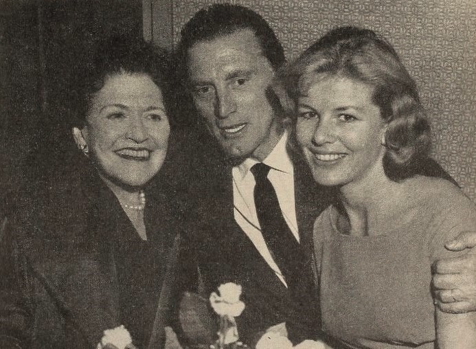 L to R: Louella Parsons, Kirk Douglas, and Sabine Bethmann, April 1959